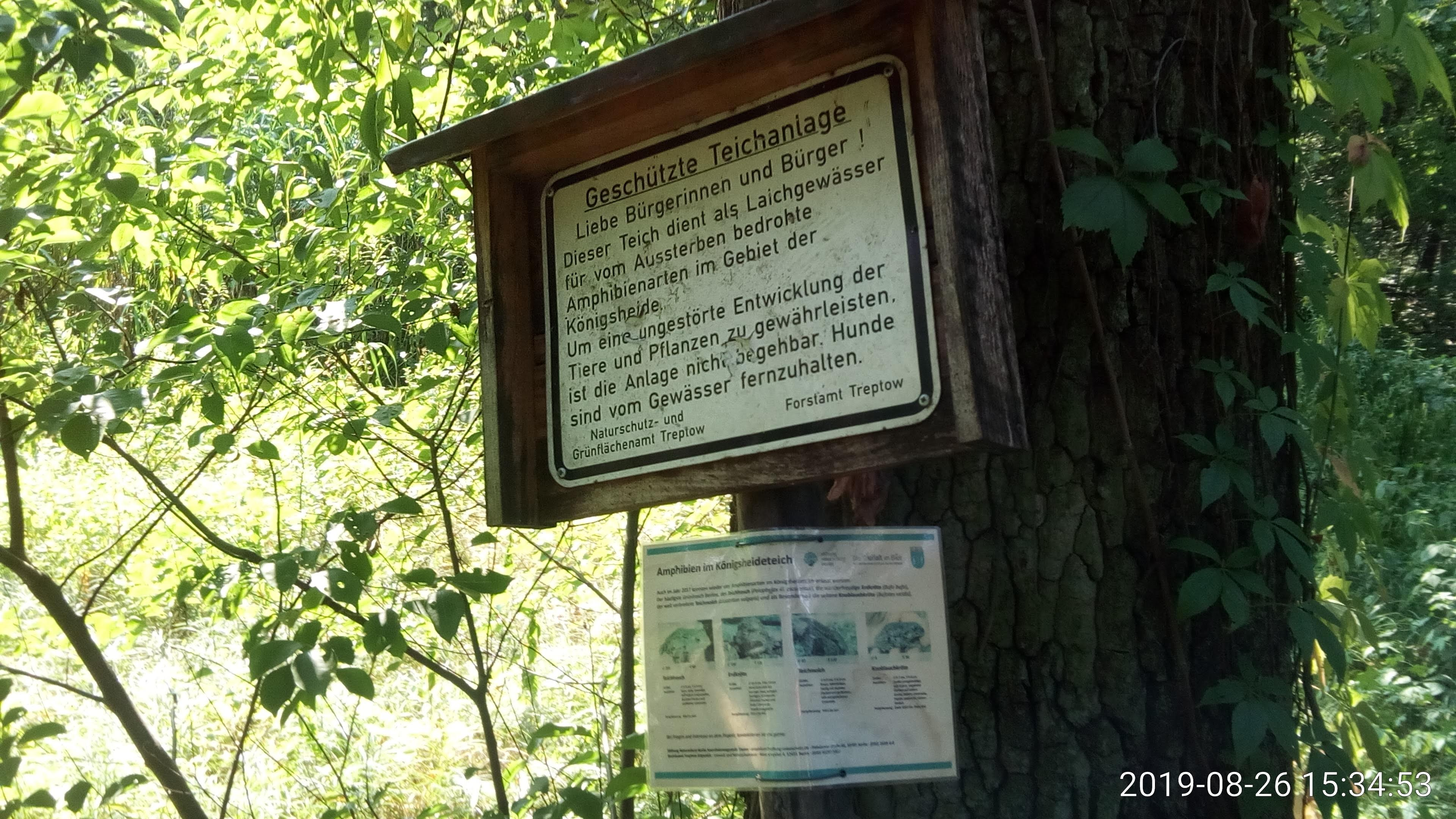 This signpost explains the environmental protection at the Königsheideteich wetland in Southeastern Berlin.